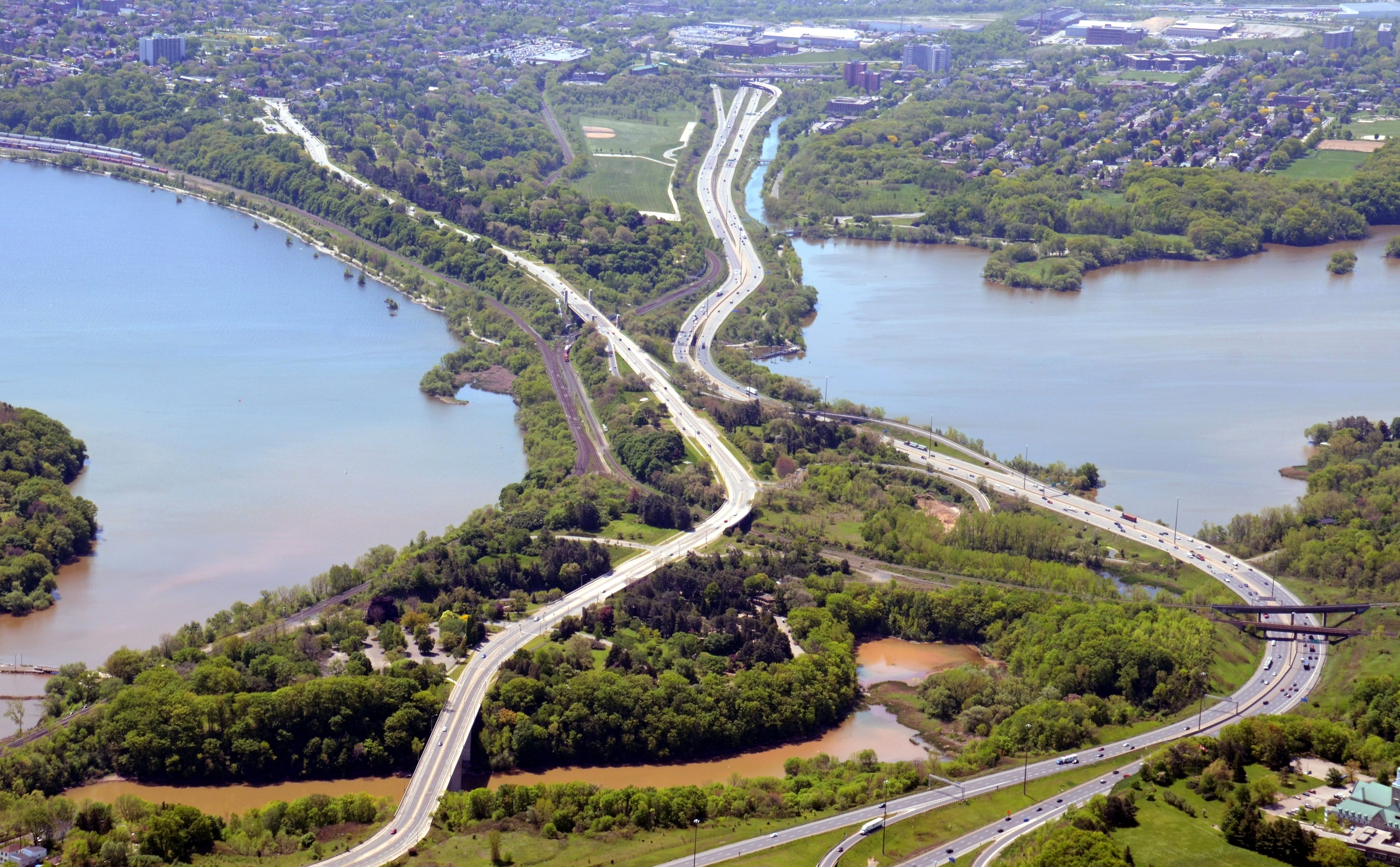 The Burlington Heights is a peninsula extending north from the City of Hamilton, Ontario toward the City of Burlington, Ontario. It separates Hamilton Harbour in the east from Cootes Paradise Marsh to the west. It is traversed by Highway 403 on its western shore and York Boulevard along its highest elevation. In the north (nearer) are major gardens owned by Royal Botanical Gardens. In the south are Dundurn Castle, John Harvey Park, and Hamilton Cemetery. Aerial photograph taken 18 May 2012.